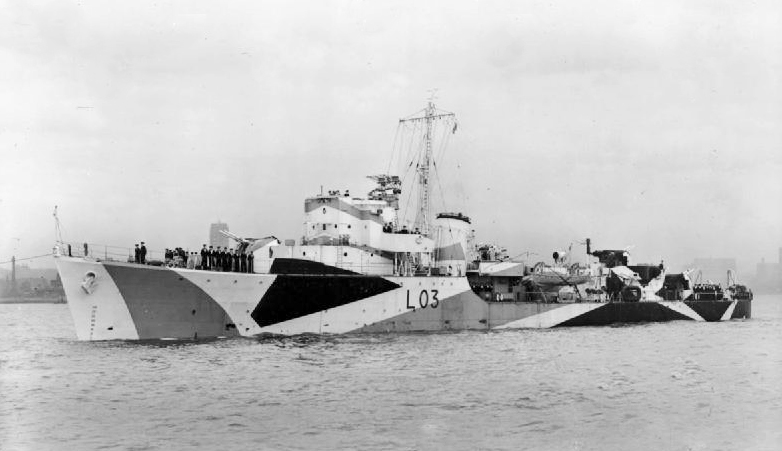 British destroyer HMS Badsworth under tow on the Mersey. She served as HNoMS Arendal with the Royal Norwegian Navy from 1944 to 1961.